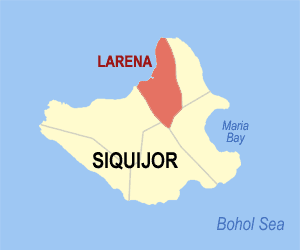 Map of Siquijor showing the location of Larena